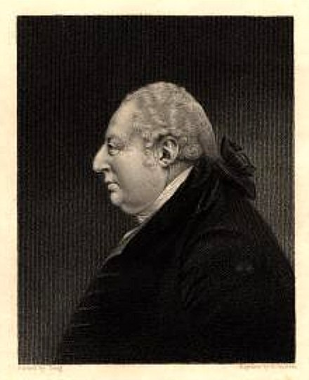 A portrait of the Third Duke of Bridgewater. The Duke's Canal was a catalyst for a canal boom, with many more canals being built after the success of the his 'cut'